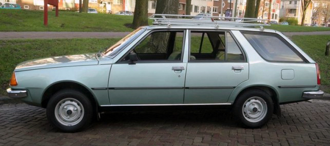 1980 Renault R18 TL Break, 1.4 litre engine and four-speed manual